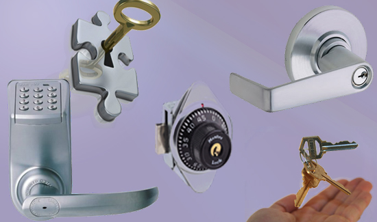 Components for security